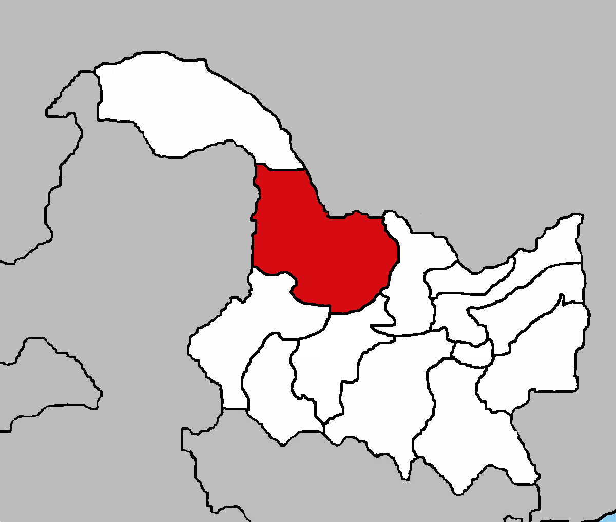 Locator map of Heihe — in Heilongjiang Province, northeast China .